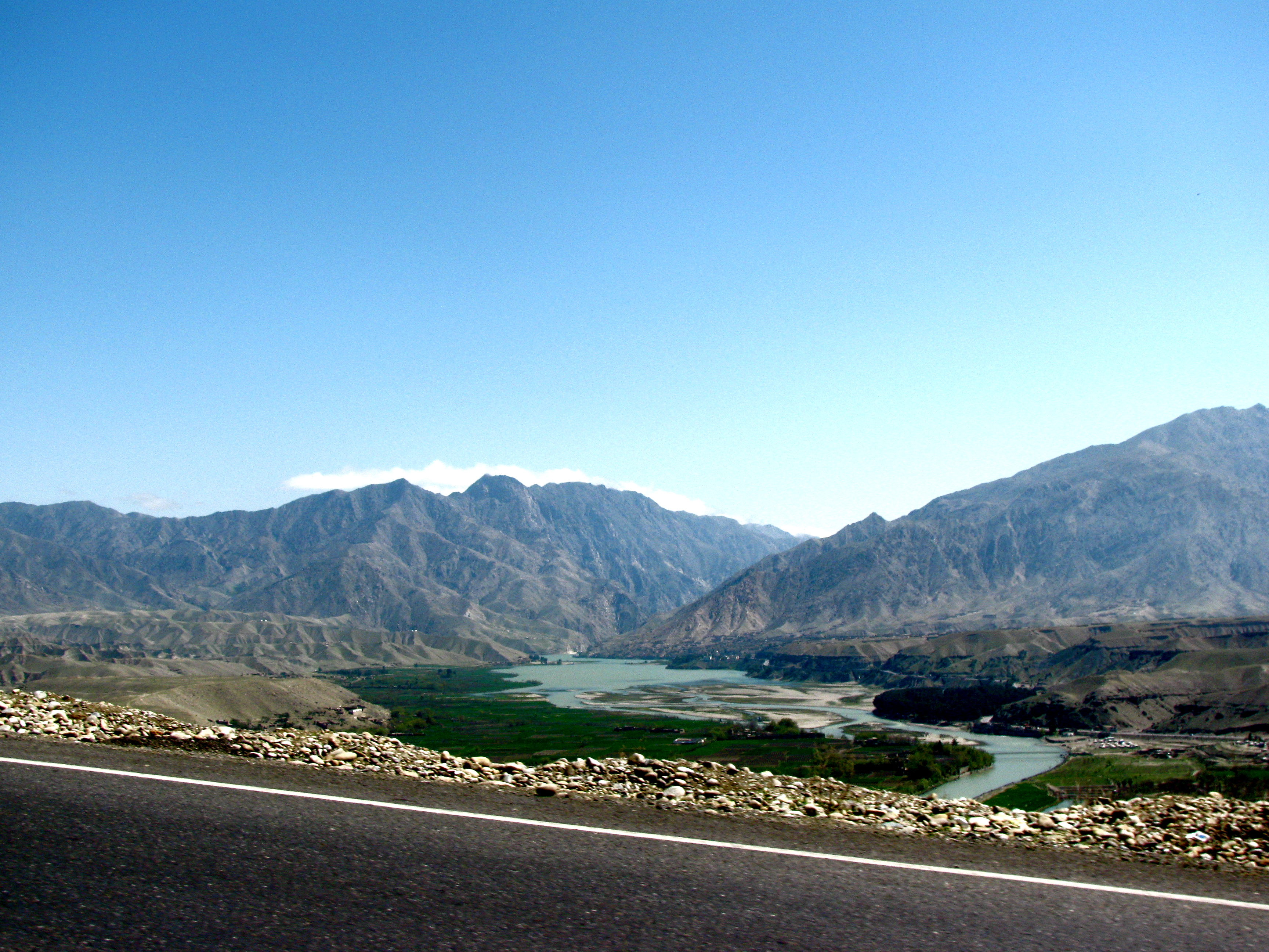 One of the many lovely valleys between Jalalabad and Kabul